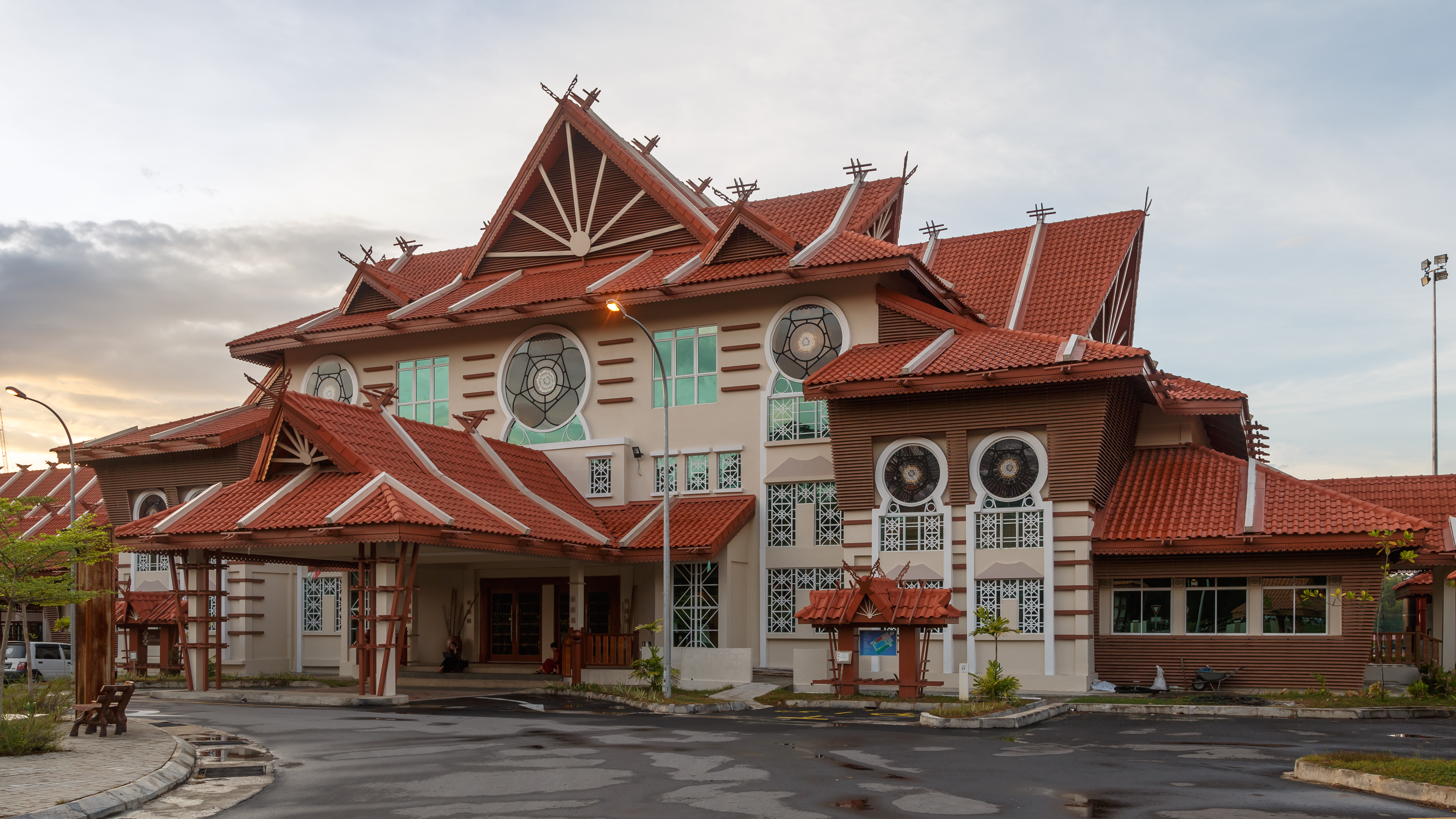 Kota Kinabalu, Sabah: National Department of Culture and Arts, Sabah Branch (Jabatan Kebudayaan dan Kesenian Negara Sabah)